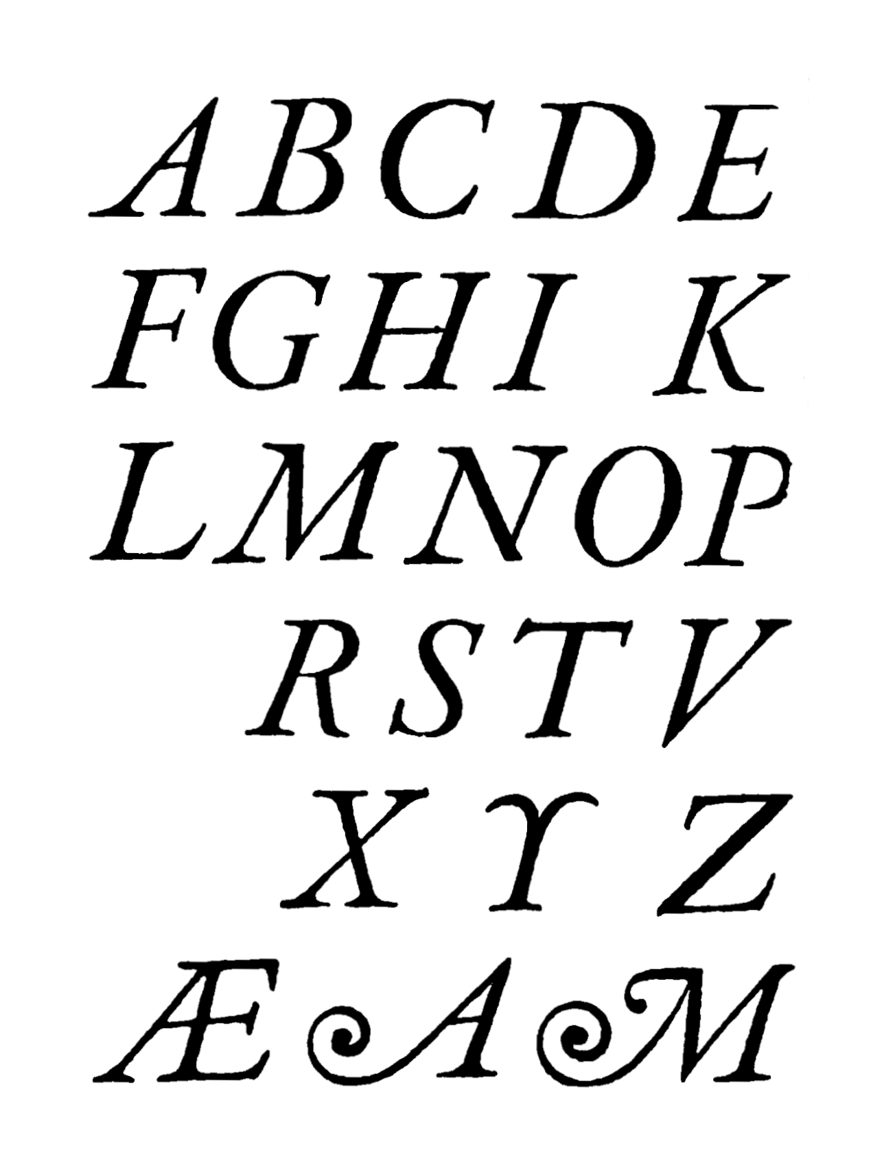 Italic capitals cut by Robert Granjon, showing two supplementary swash capitals. A J and U that were definitely not part of the original font, and a Q that also might not have been, have been removed.